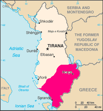 Greek occuption of Albania November 1940 - March 1941